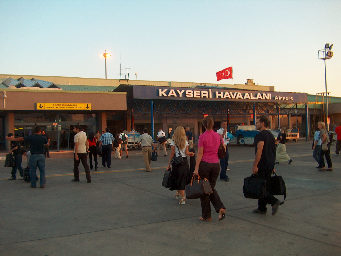 Erkilet Airport, photo taken shortly after landing